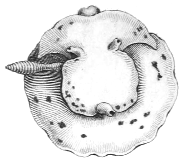 Black and white drawing of dorsal view of Euselenops luniceps